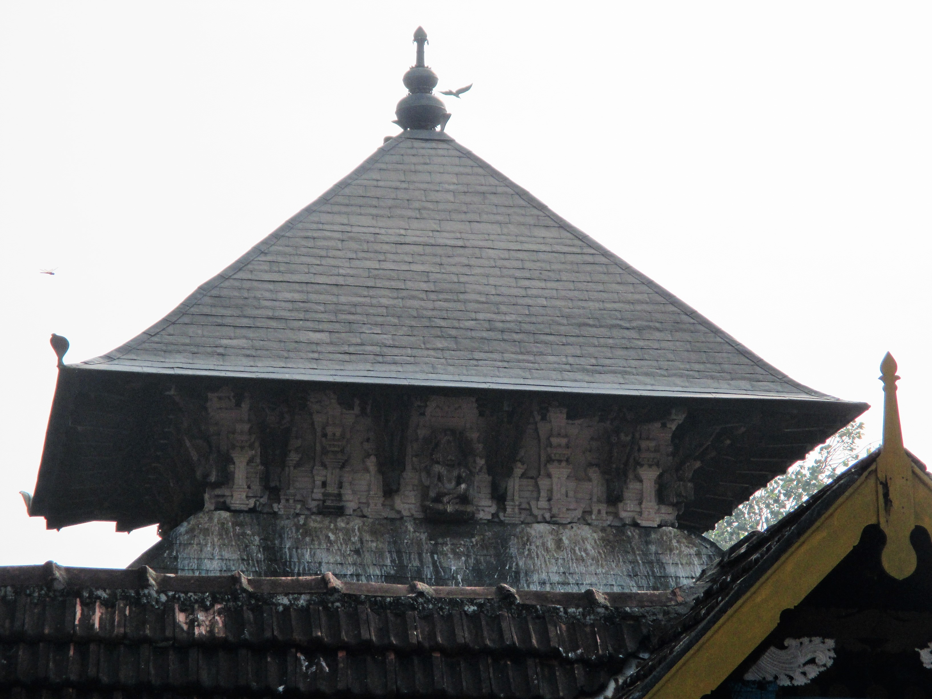 Thirunavaya temple